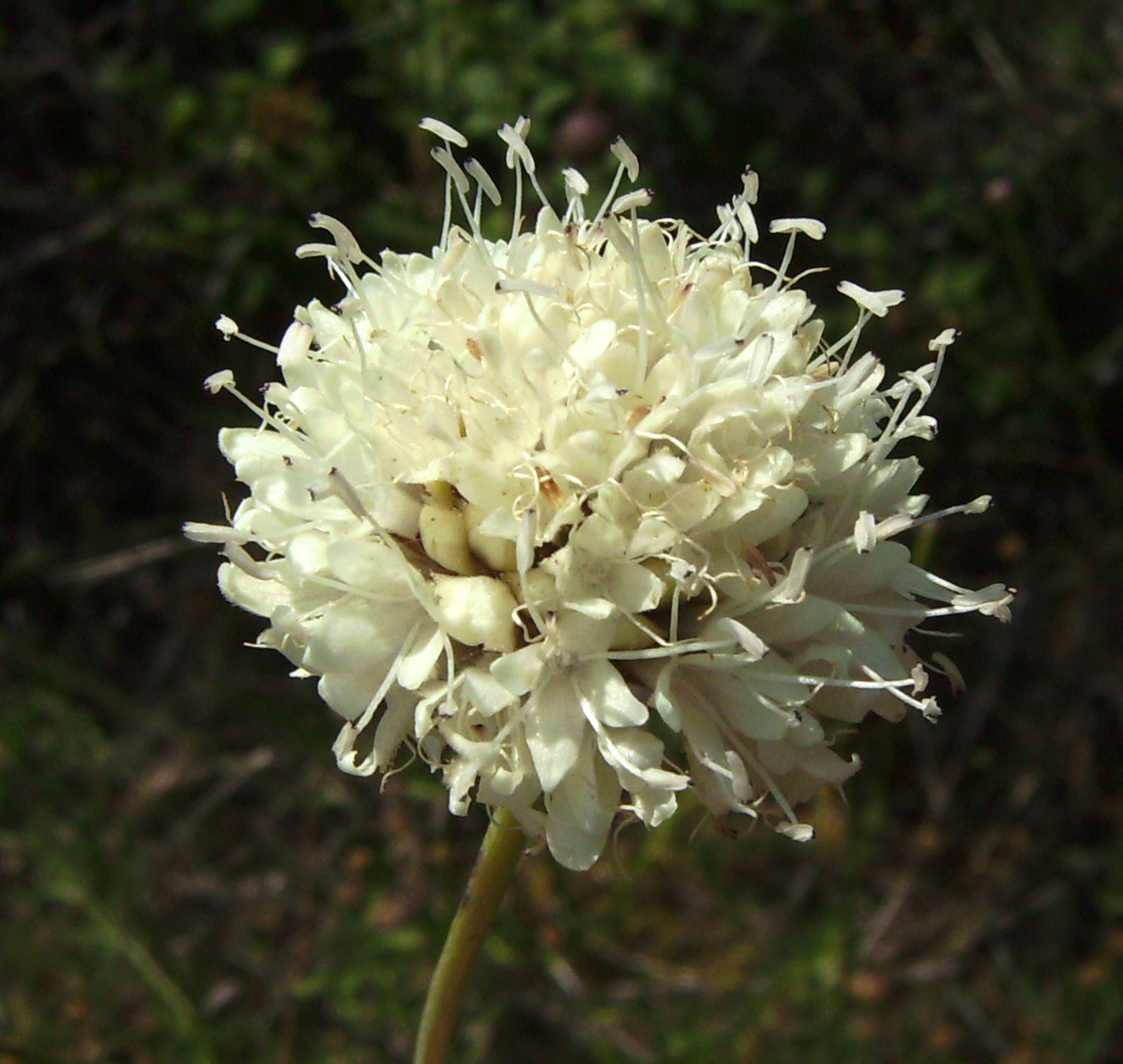 Cephalaria leucantha ("Faia" in catalan), flower, Castelltallat, Catalonia